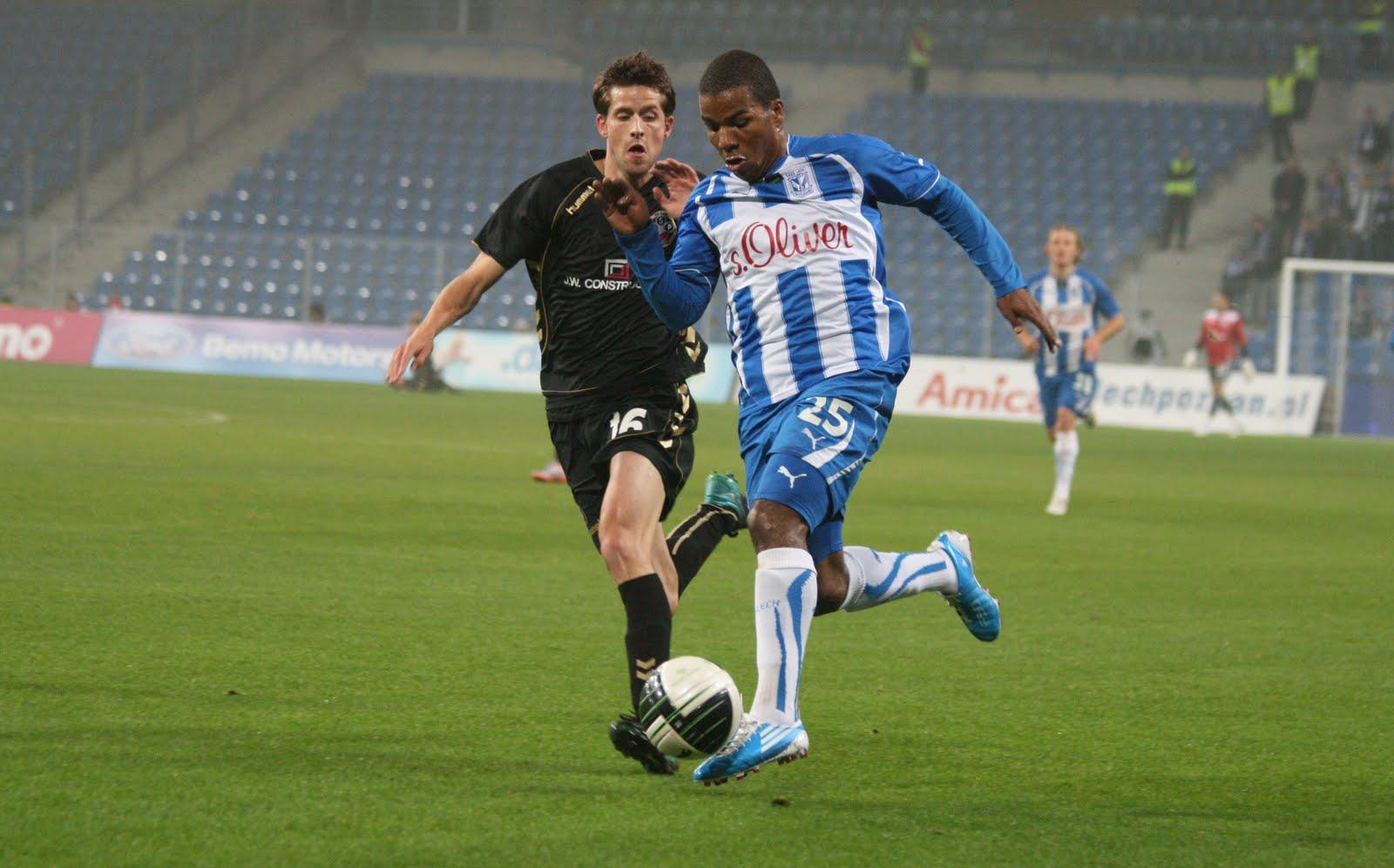 Andreu (Polonia Warsaw, on the left) and Luis Henríquez (Lech Poznań) in the Polish football league.